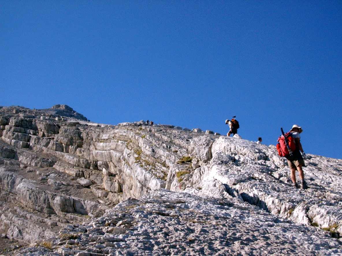 Mountain "Antelao": the Rock Plate "Laste"